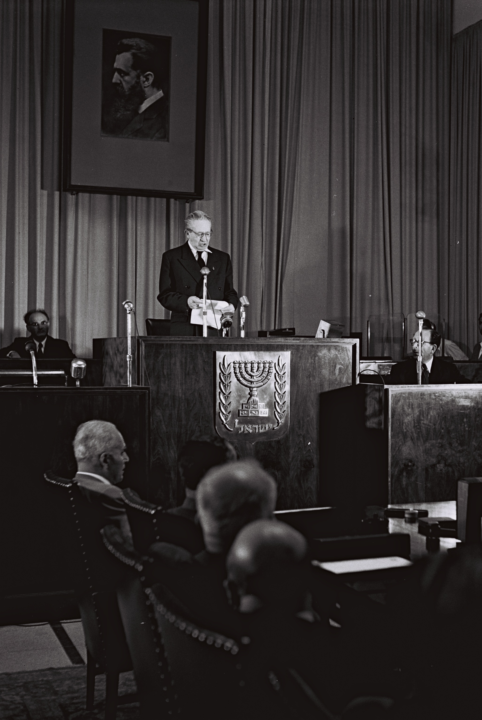 President Yitzhak Ben-Zvi speaking at the opening session of the Third Knesset